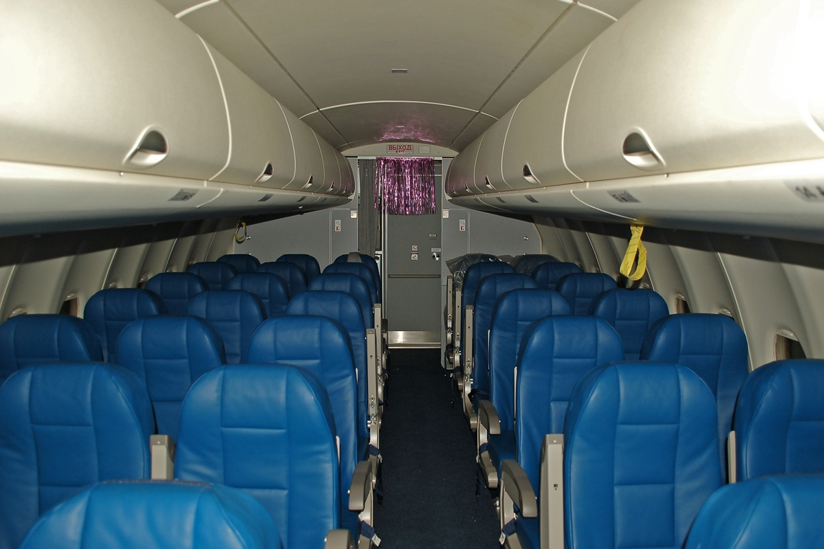 Interior of the Sukhoi Superjet 100 EK-95015 belonging to Armavia